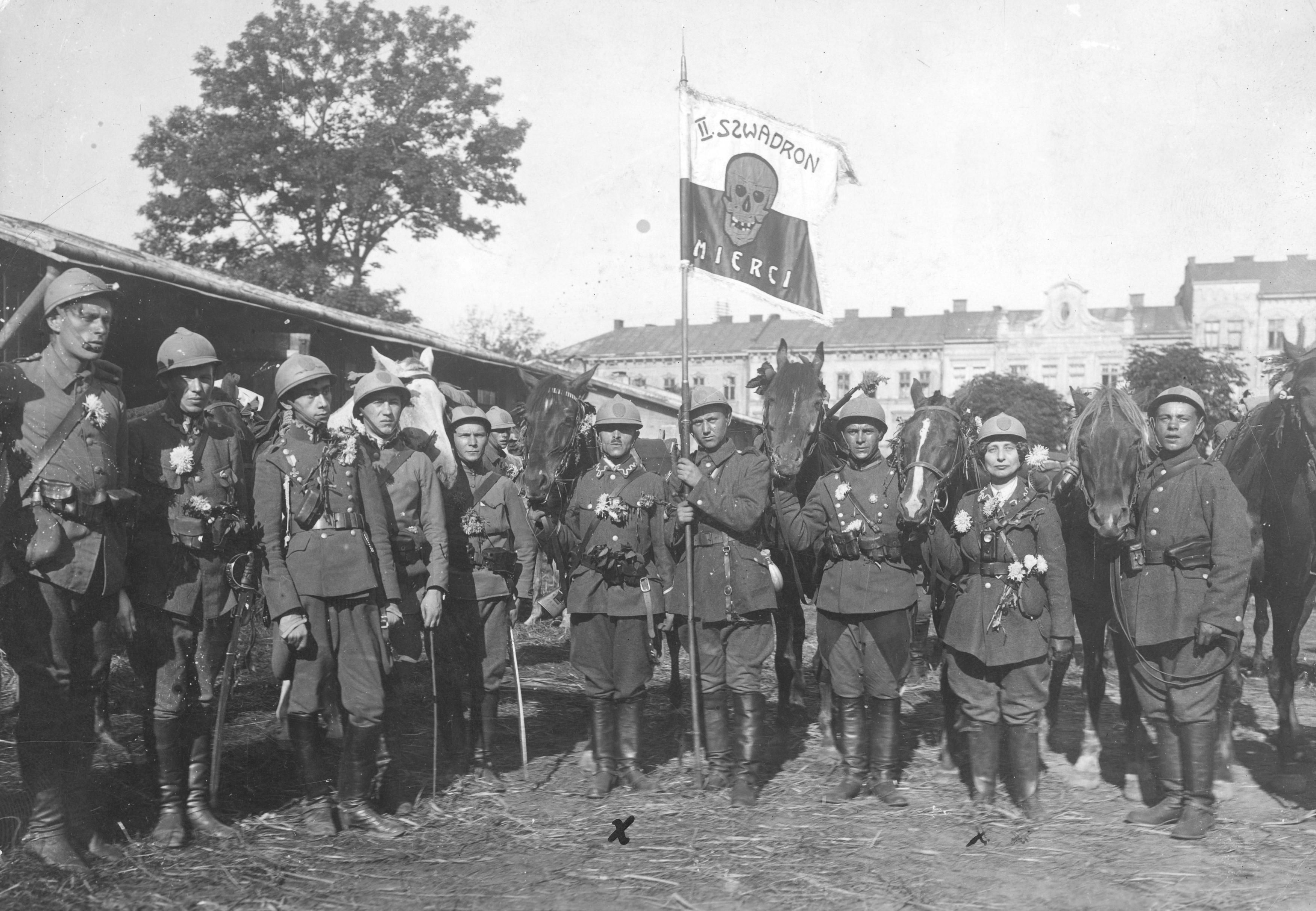 Polish Voluntary II Death Squad in Lviv 1920. Second from right: Janina Łada-Walicka, on the left of the flag Artur Schroeder.